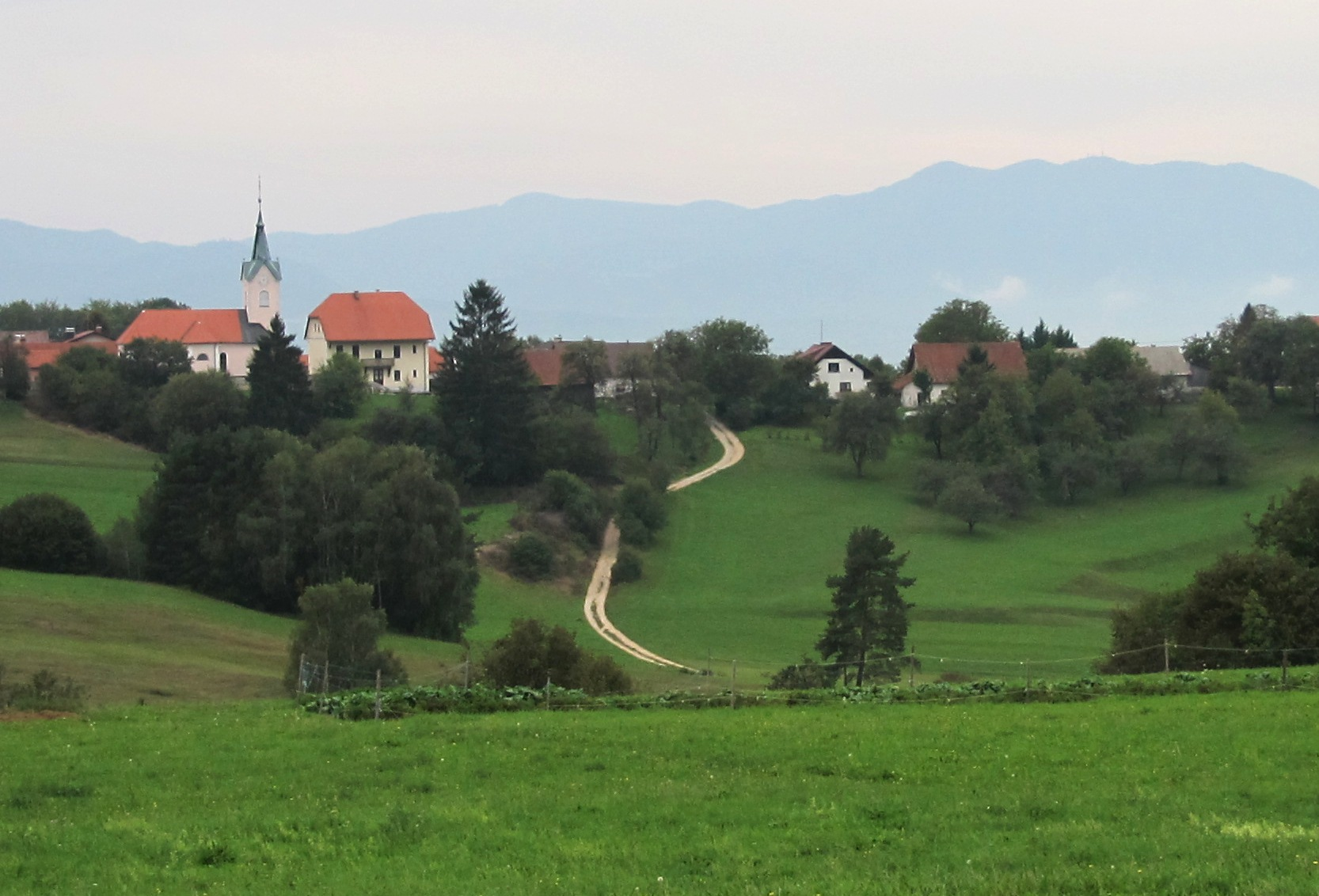 Mali Lipoglav, City Municipality of Ljubljana, Slovenia seen from Veliki Lipoglav